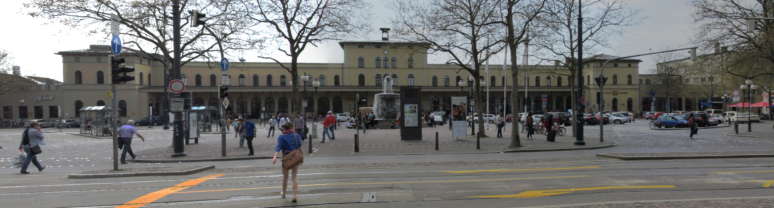 The front of Augsburg Hauptbahnhof railway station (Victoria Street).